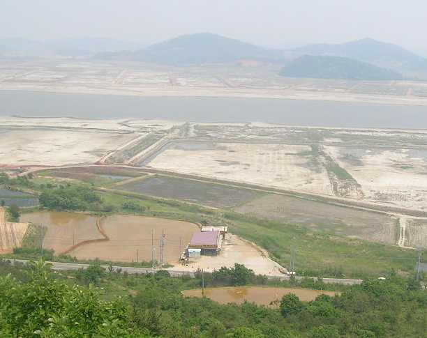 Portion of the coastline of Daebu Island, Ansan City, South Korea. Taken by User:Visviva.